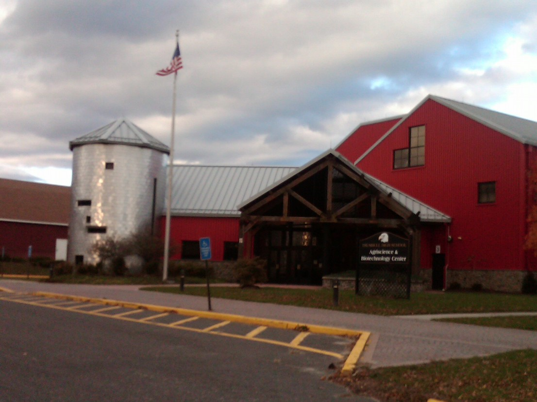 Trumbull High School Agriscience building